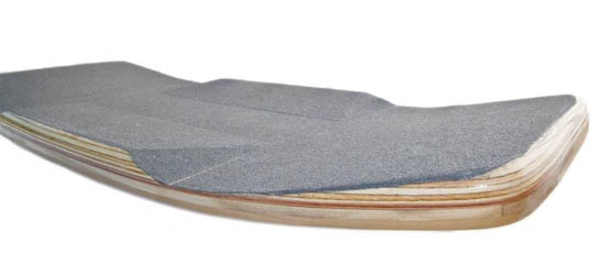 Wakeskate with typical shape and griptape